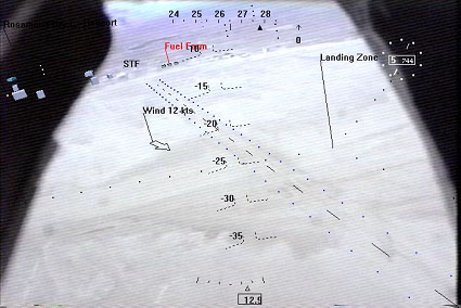 NASA used the LandForm Hybrid Synthetic Vision system on X-38 between 1998 and 2002. The display overlaid map data on live video, in this case showing the location of runways as well as obstacle landmarks, like the fuel farm in the upper left.